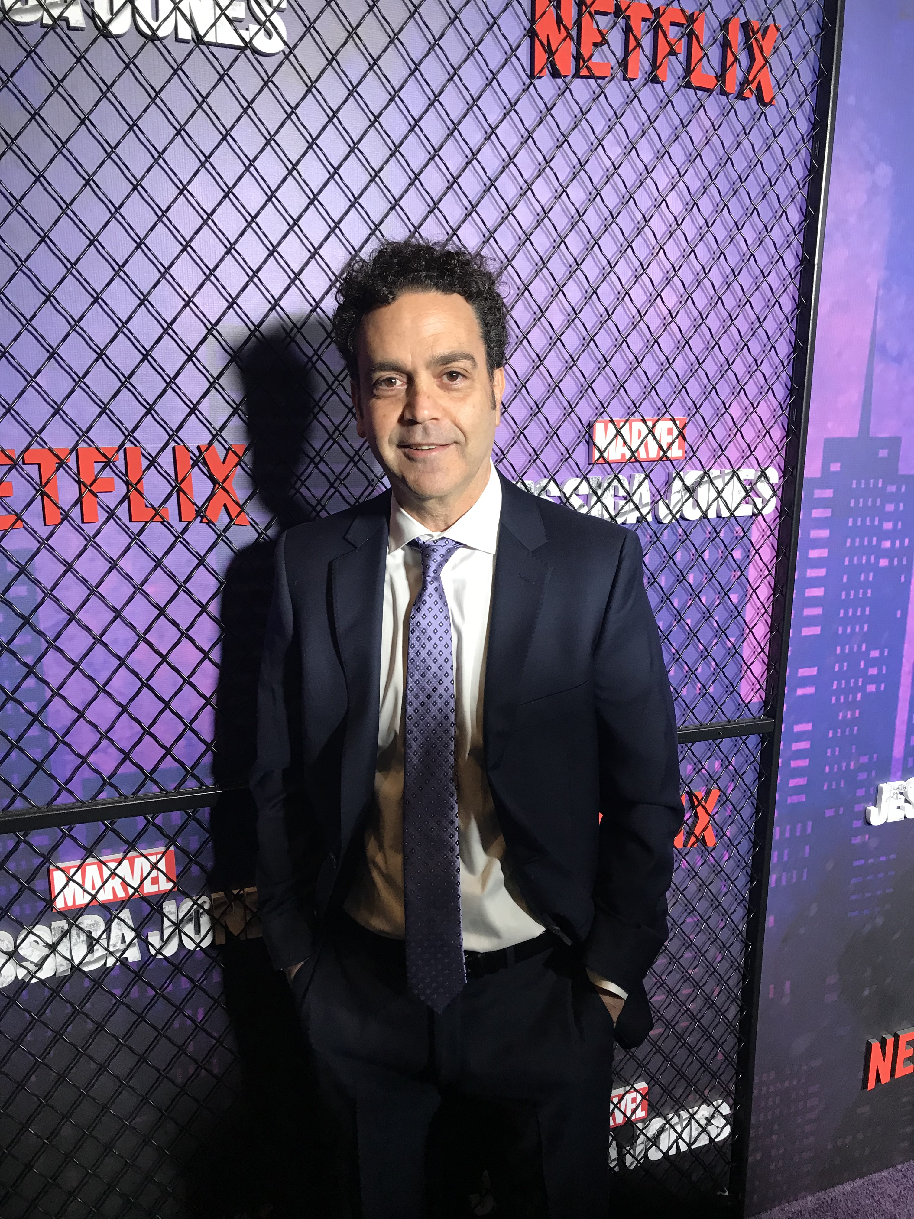 American actor Maury Ginsberg at the Jessica Jones season 2 premiere NYC Lowe’s Lincoln Square. March 7th. 2018